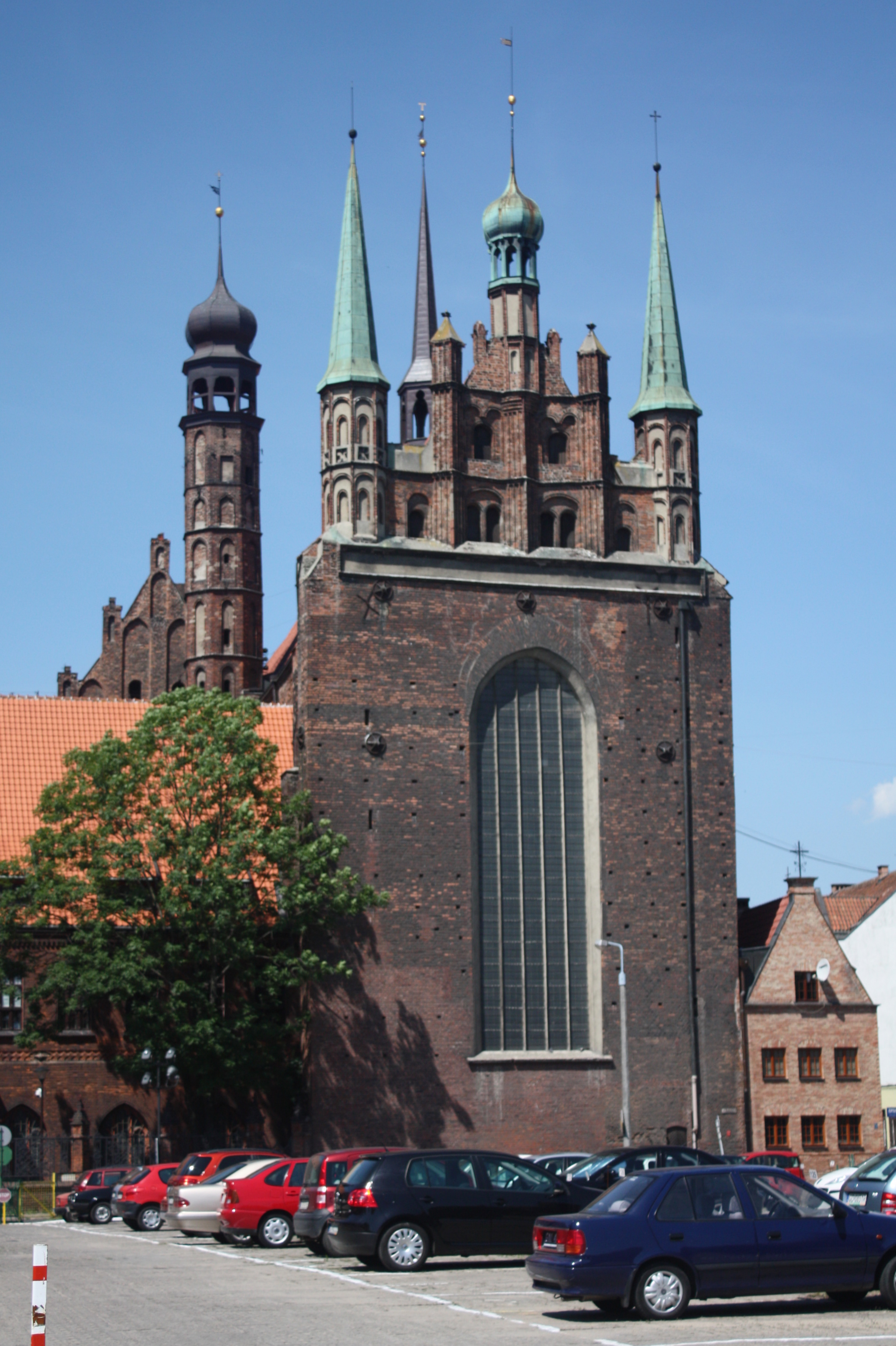 Gdańsk, Church of Holy Trinity and former Franciscan Monastery